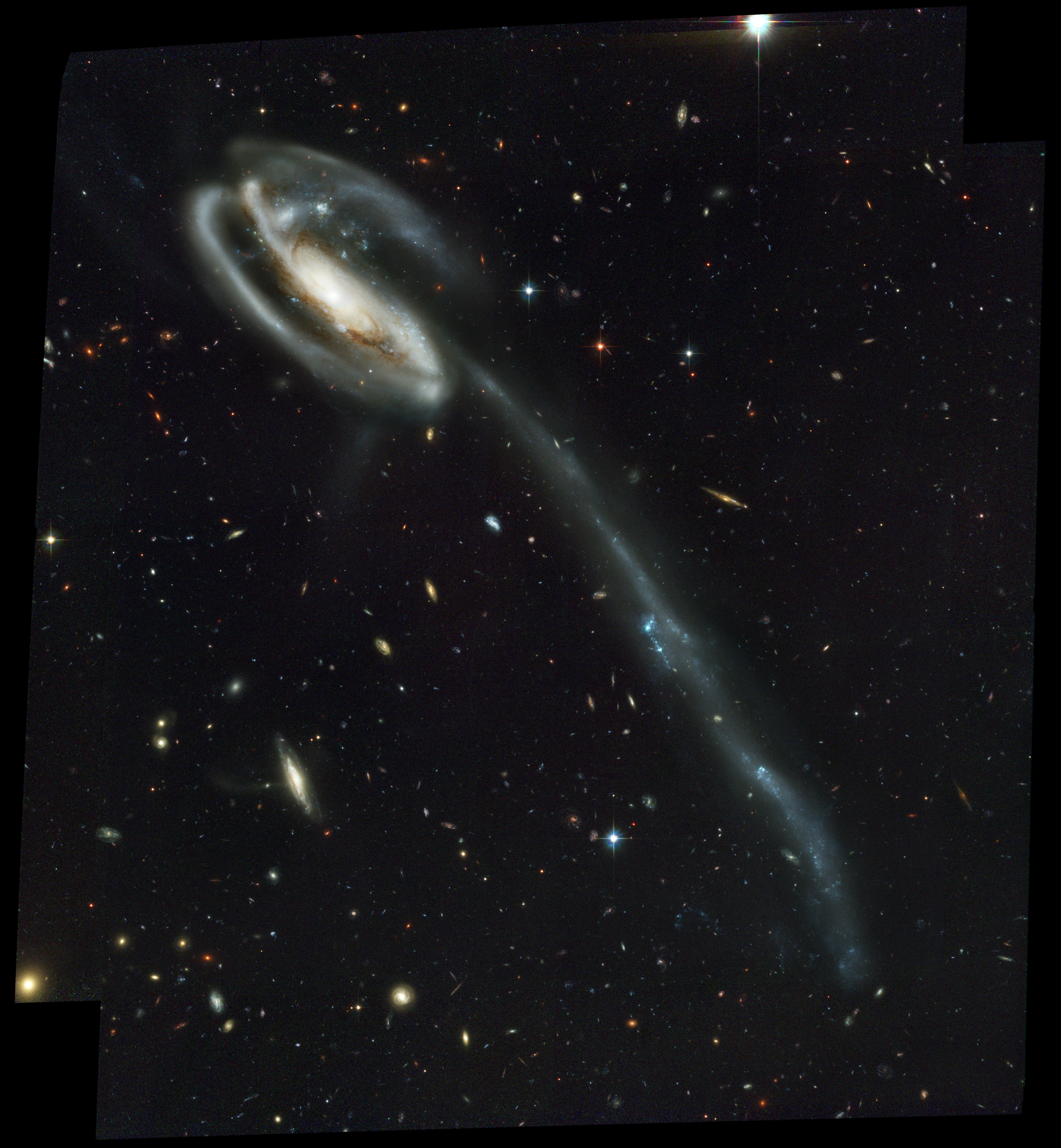 UGC 10214 Tadpole Galaxy. This picture of the galaxy UGC 10214 was was taken by the Advanced Camera for Surveys (ACS), which was installed aboard the Hubble Space Telescope (HST) in March 2002 during HST Servicing Mission 3B (STS-109 mission). Dubbed the "Tadpole," this spiral galaxy is unlike the textbook images of stately galaxies. Its distorted shape was caused by a small interloper, a very blue, compact galaxy visible in the upper left corner of the more massive Tadpole. The Tadpole resides about 420 million light-years away in the constellation Draco. Seen shining through the Tadpole's disk, the tiny intruder is likely a hit-and-run galaxy that is now leaving the scene of the accident. Strong gravitational forces from the interaction created the long tail of debris, consisting of stars and gas that stretch our more than 280,000 light-years. The galactic carnage and torrent of star birth are playing out against a spectacular backdrop: a "wallpaper pattern" of 6,000 galaxies. These galaxies represent twice the number of those discovered in the legendary Hubble Deep Field, the orbiting observatory's "deepest" view of the heavens, taken in 1995 by the Wide Field and planetary camera 2. The ACS picture, however, was taken in one-twelfth of the time it took to observe the original HST Deep Field. In blue light, ACS sees even fainter objects than were seen in the "deep field." The galaxies in the ACS picture, like those in the deep field, stretch back to nearly the beginning of time.